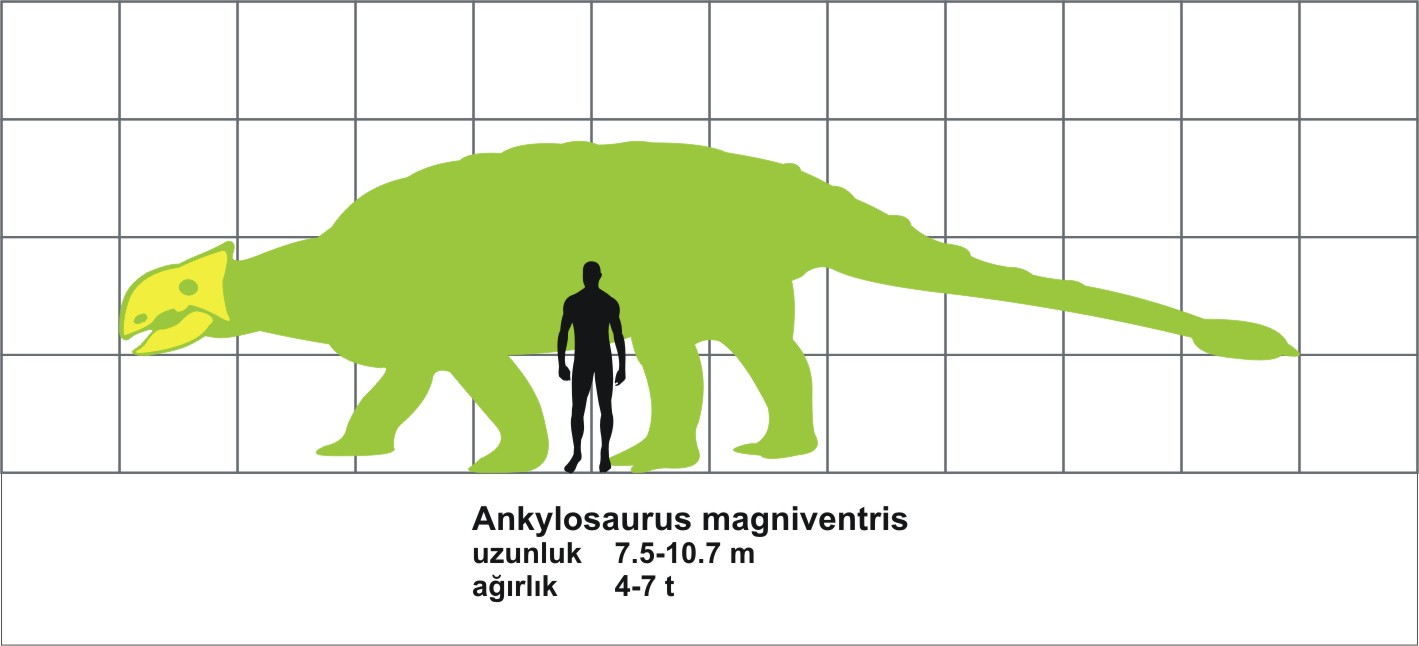 Size comparison of Ankylosaurus magniventris, reconstruction kindly provided by Oktaytanhu.